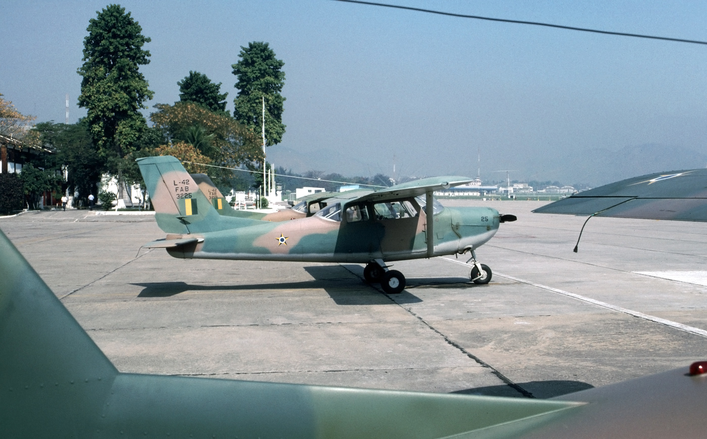 The Neiva L-42 Regente is a locally built liaison plane. All (or most) Neivas still in service are U-42s and white. This photo was taken at Campos dos Afonsos in July 1995.